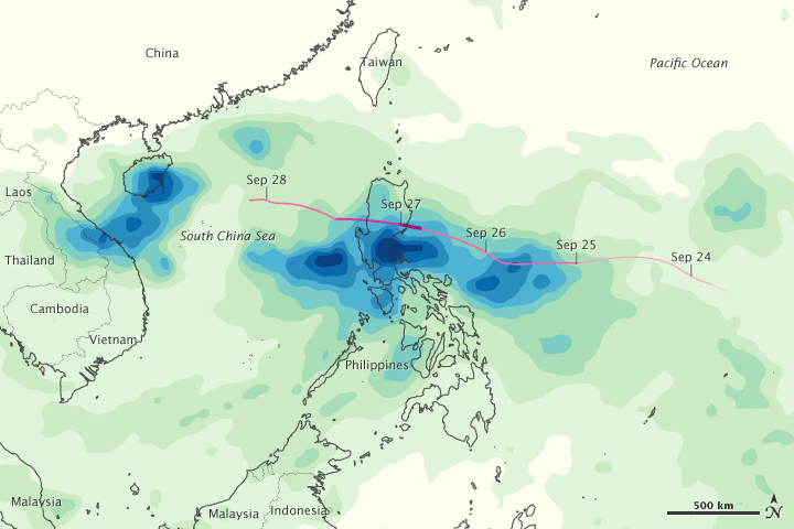 Rain from Typhoon Nesat (called Pedring in the Philippines) caused widespread flooding in the Philippines on September 27 and 28, 2011. The image, made from the Multi-satellite Precipitation Analysis, which is based on data from the Tropical Rainfall Measuring Mission (TRMM) satellite, shows heavy rain along the path of the storm between September 23 and September 27. The satellite data recorded more than 350 millimeters (14 inches) of rain across broad regions. Local rainfall totals may be higher. The image also shows an area of heavy rain over Vietnam and Hainan from Tropical Storm Haitang. According to local news reports, the heavy rain from Nesat contributed to flooding across central Luzon, the largest island in the Philippines. The affected areas included key crop-growing regions. An estimated 33,890 tons of rice were lost, said news reports. Nesat affected nearly 350,000 people and caused 33 deaths with 41 missing as of September 29.